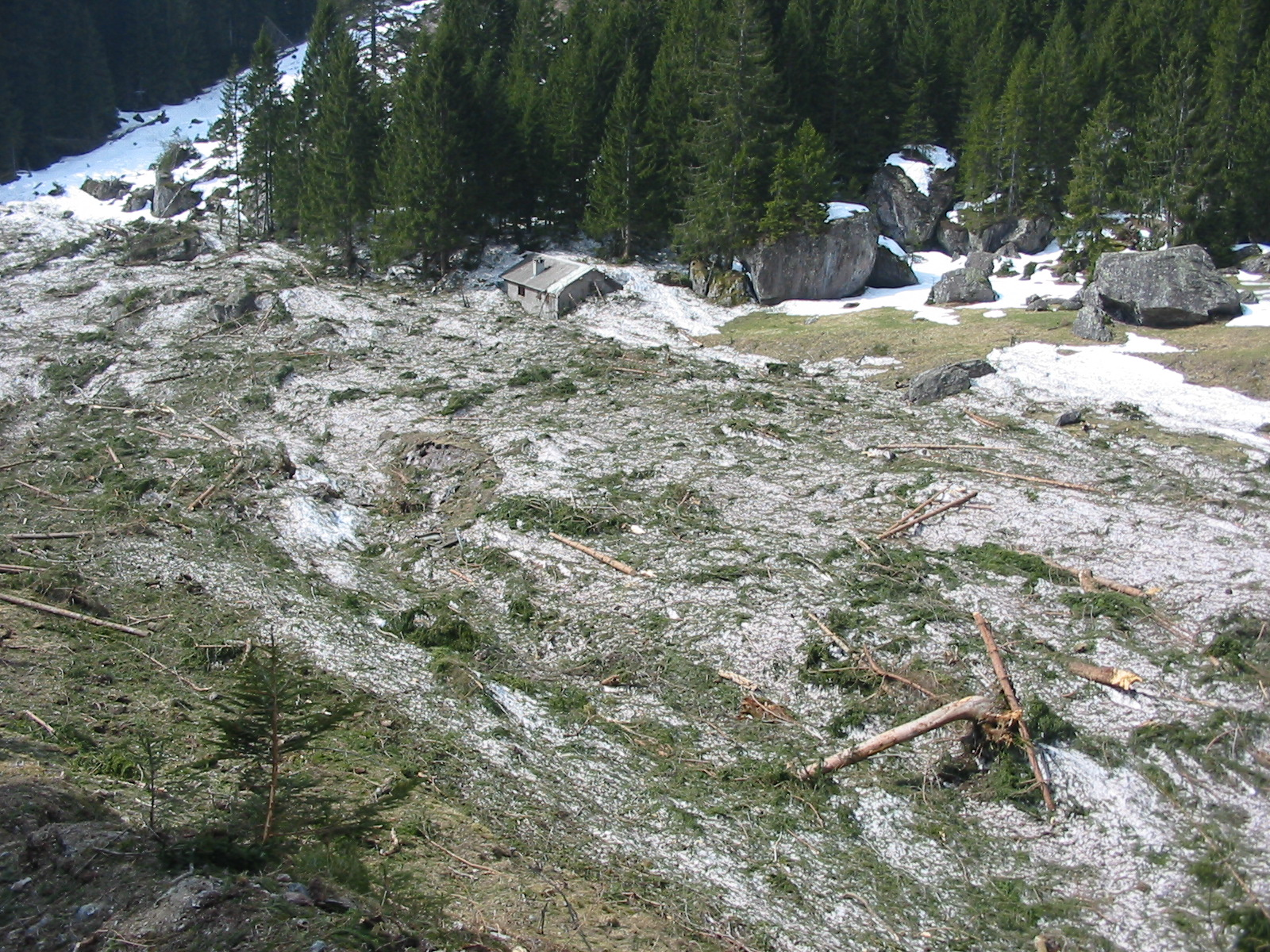 Avalanche above Engi, Switzerland